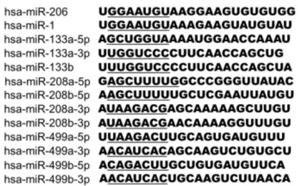 The sequences of the miR-206 family members. Sequence similarity is being emphasized.